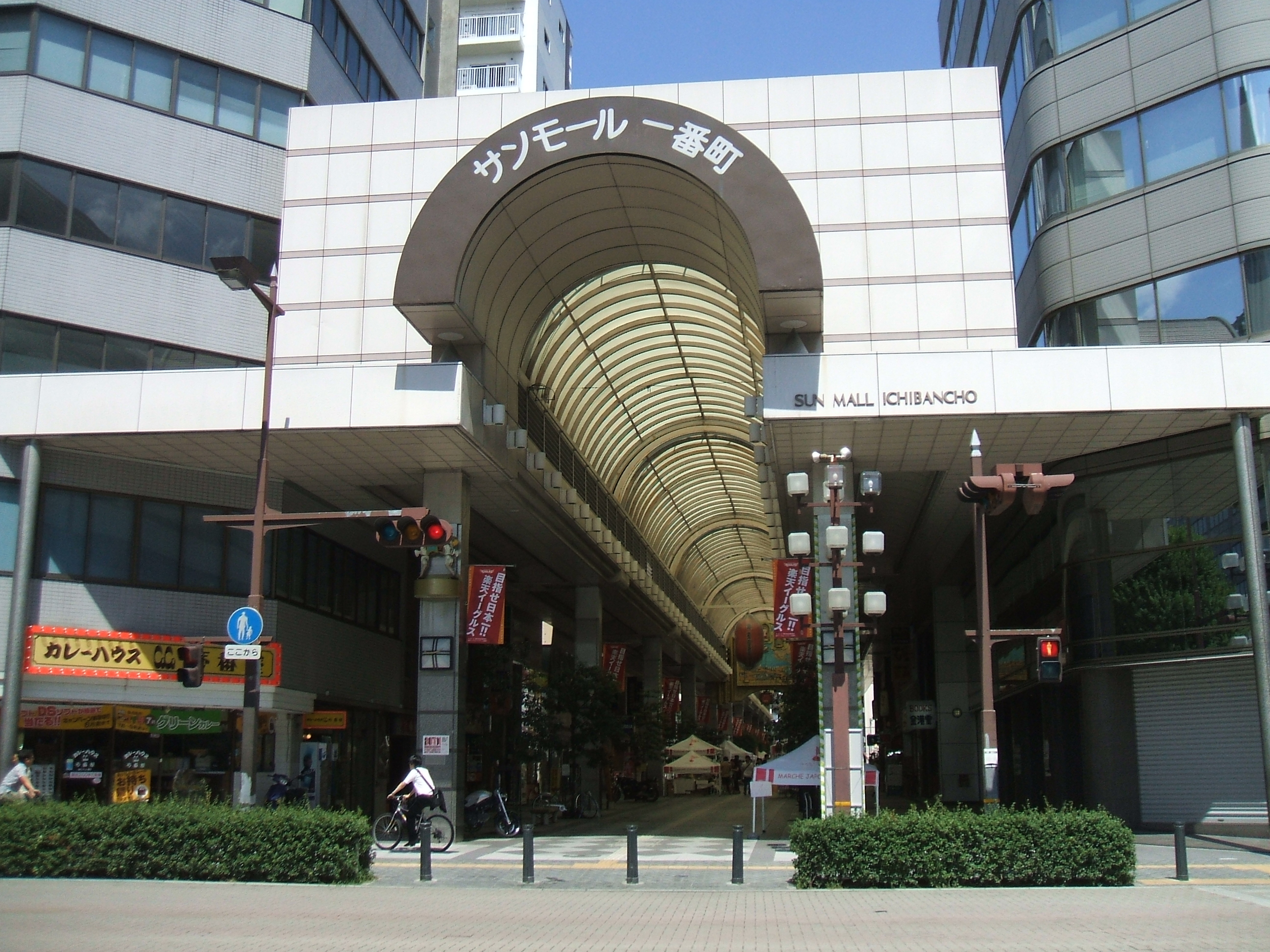 This is landscape of Ichimanchyo.